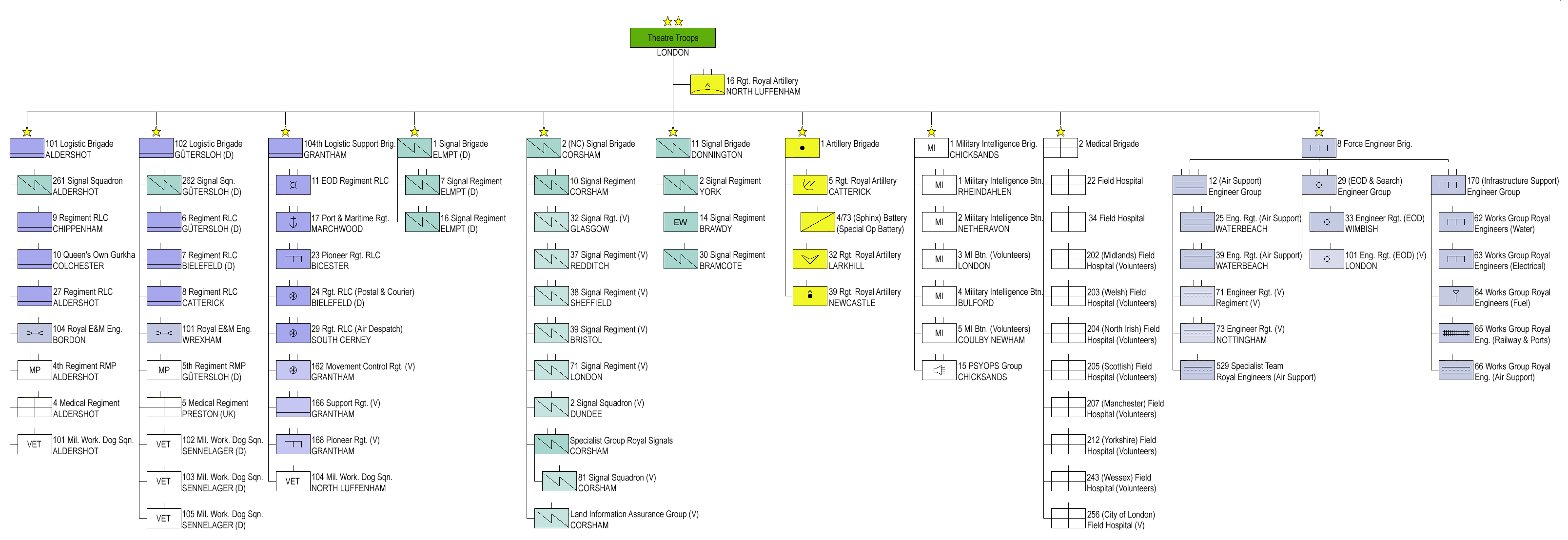 United Kingdom Army Theatre Troops Structure